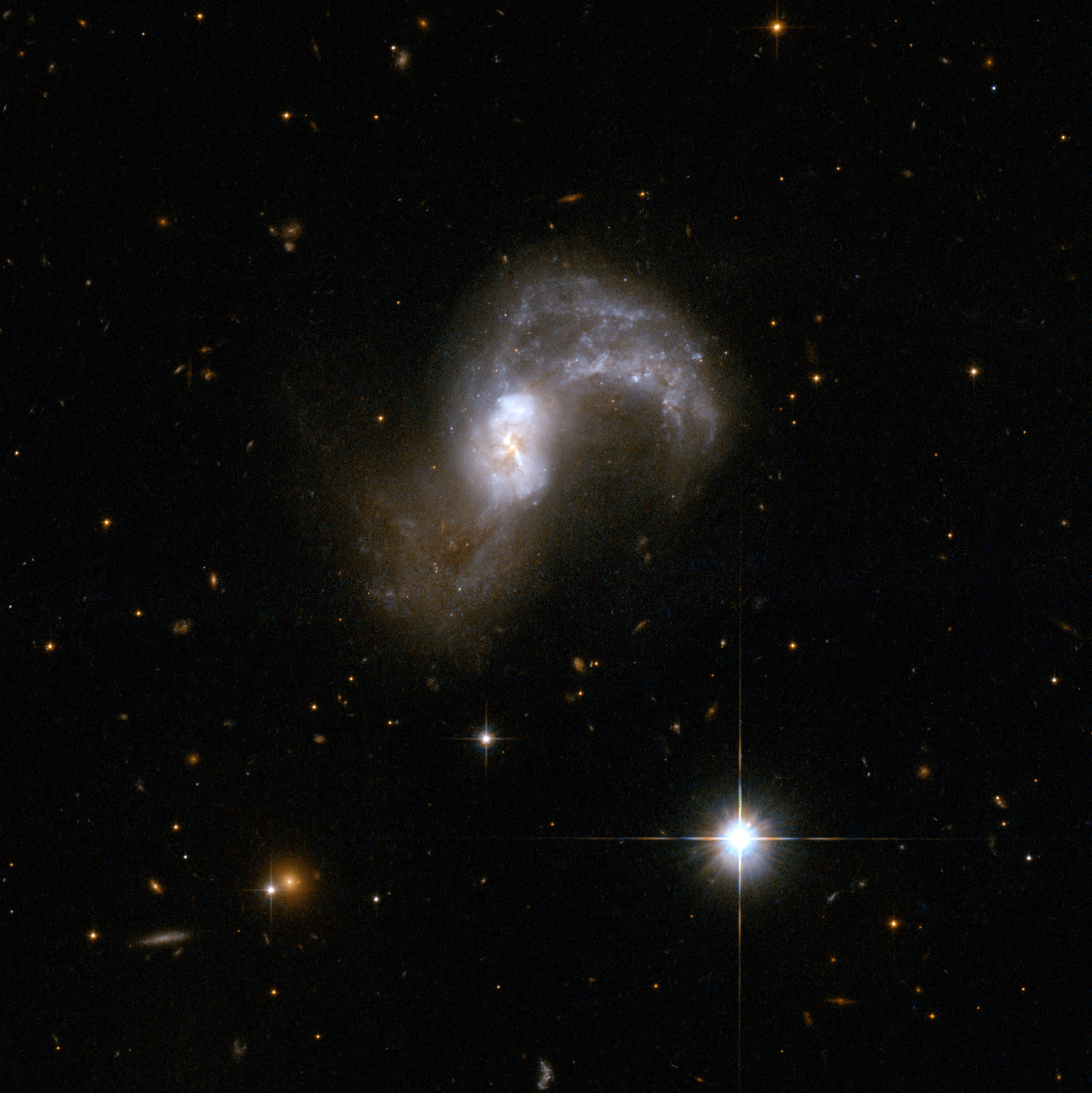 IC 2545 is a beautiful, but deceptive object that appears to be a single S-shaped galaxy, but is actually a pair of merging galaxies. The two cores of the parent galaxies are still visible in the central region. Other telltale markers for the collision include two pronounced tidal arms of gas and stars flung out from the central region. The tidal arm curving upwards and clockwise in the image contains a number of blue star clusters. IC 2545 glows strongly in the infrared part of the spectrum - another sign that it is a pair of merging galaxies. It lies in the constellation of Antlia, the Air Pump, some 450 million light-years away from Earth. This image is part of a large collection of 59 images of merging galaxies taken by the Hubble Space Telescope and released on the occasion of its 18th anniversary on 24th April 2008. About the objectObject nameIC 2545, AM 1003-333Object descriptionInteracting GalaxiesPosition (J2000)10 06 05.04 -33 53 14.8ConstellationAntliaDistance450 million light-years (150 million parsecs)About the dataData descriptionThe Hubble image was created using HST data from proposal 10592: A. Evans (University of Virginia, Charlottesville/NRAO/Stony Brook University)InstrumentACS/WFCExposure date(s)November 5, 2001Exposure time34 minutesFiltersF435W (B) and F814W (I)